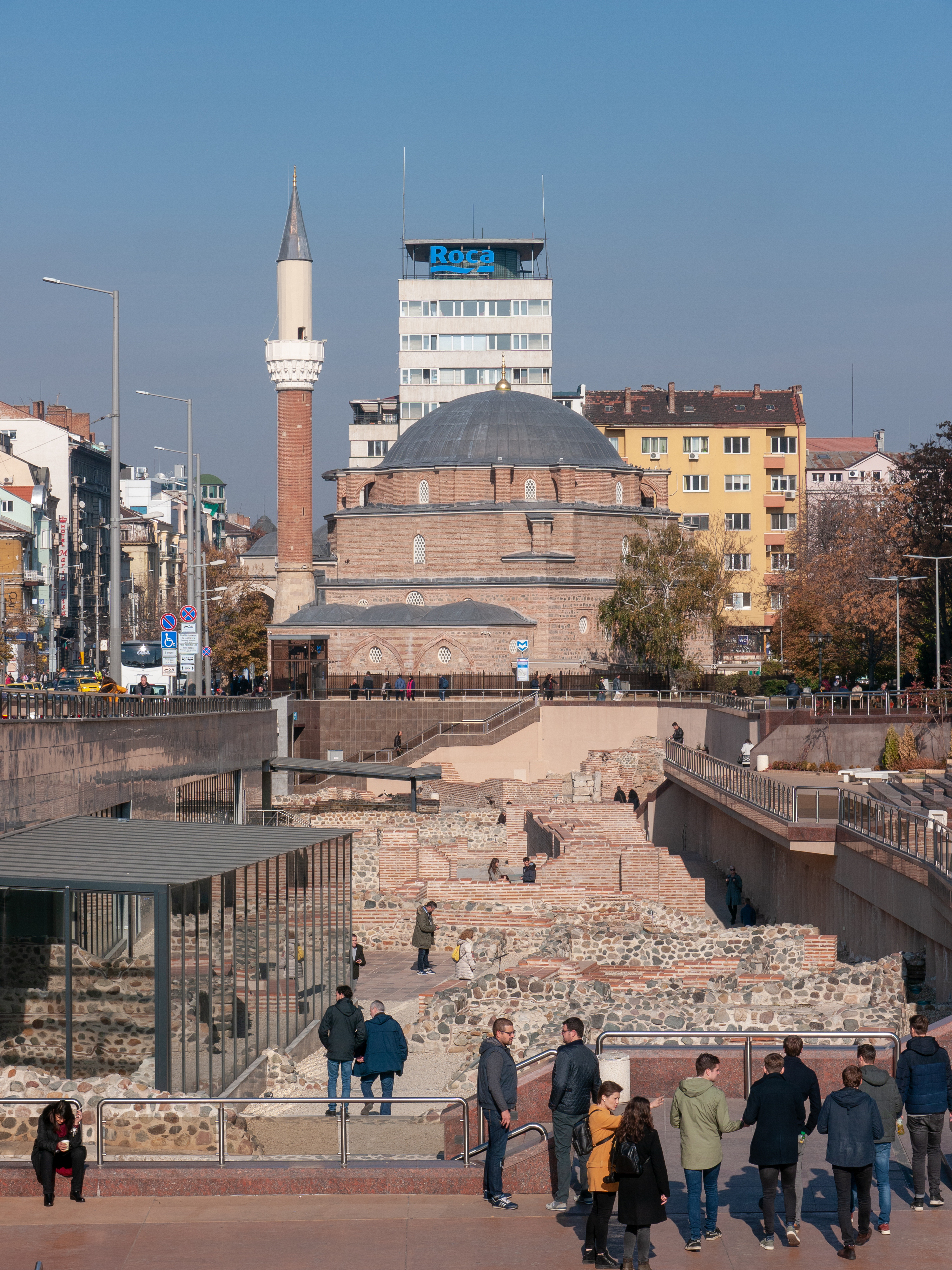 Banyabaşı Mosque, Sofia, Bulgaria